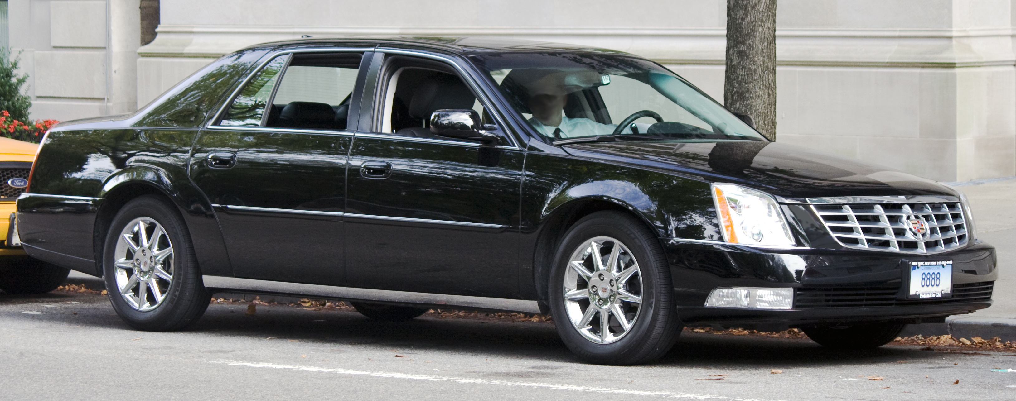 2007 Cadillac DTS-L, a lightly stretched version available from November 2006. This was built by Accubuilt at Cadillac's behest. From MY 2008, a longer and more natural-looking rear door was used.